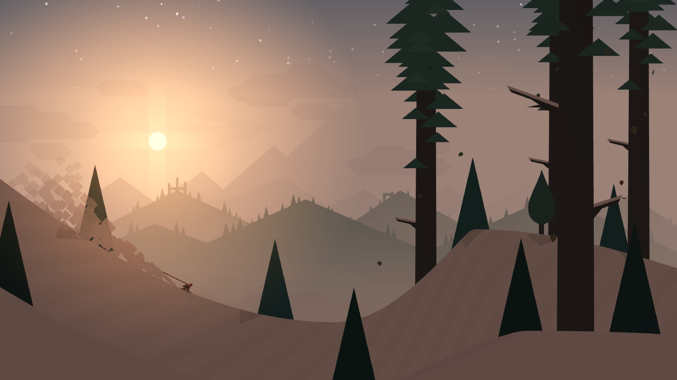 Screenshot from indie video game Alto's Adventure